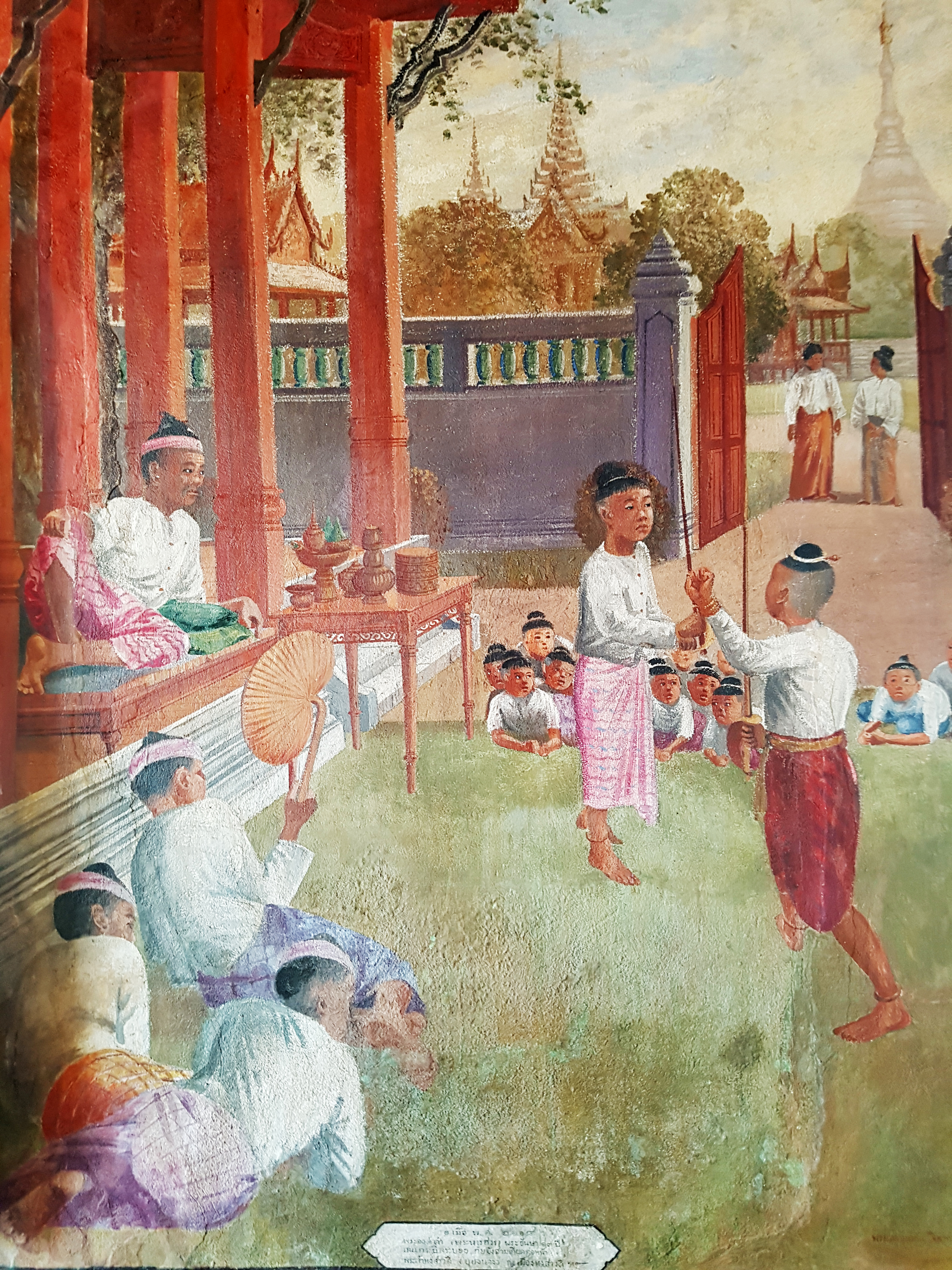 Painting: Naresuan the crown prince of Ayutthaya played with Mingyi Swa the crown prince of Taungoo before Bayinnaung the king of Taungoo in 2108 Buddhist Era (falling between 1565/66 Common Era). Place: Mural painting inside the wihan of Wat Suwan Dararam, Phra Nakhon Si Ayutthaya Province, Thailand. Painter: Noble title: Phraya Anusat Chittrakon (พระยาอนุศาสนจิตรกร) Real name: Chan Chittrakon (จันทร จิตรกร) Year painted: 2474 Buddhist Era (falling between 1931/32 Common Era)